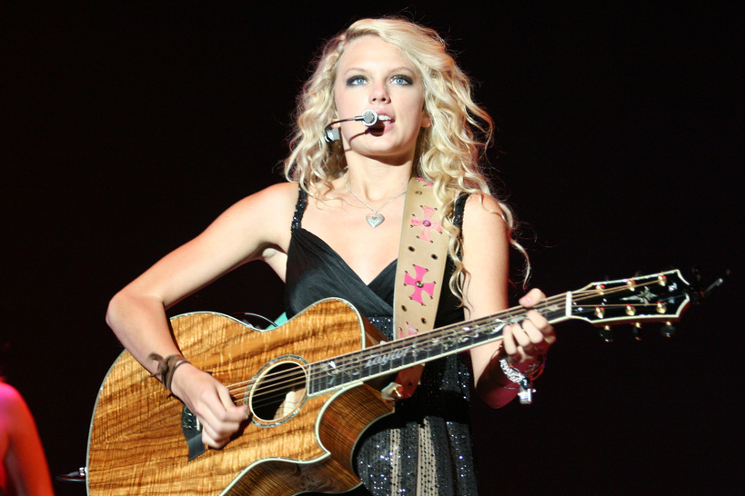 American country musician Taylor Swift performing live.